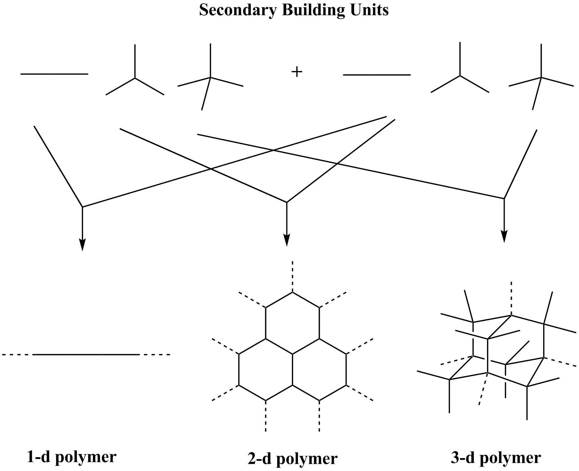 reticular